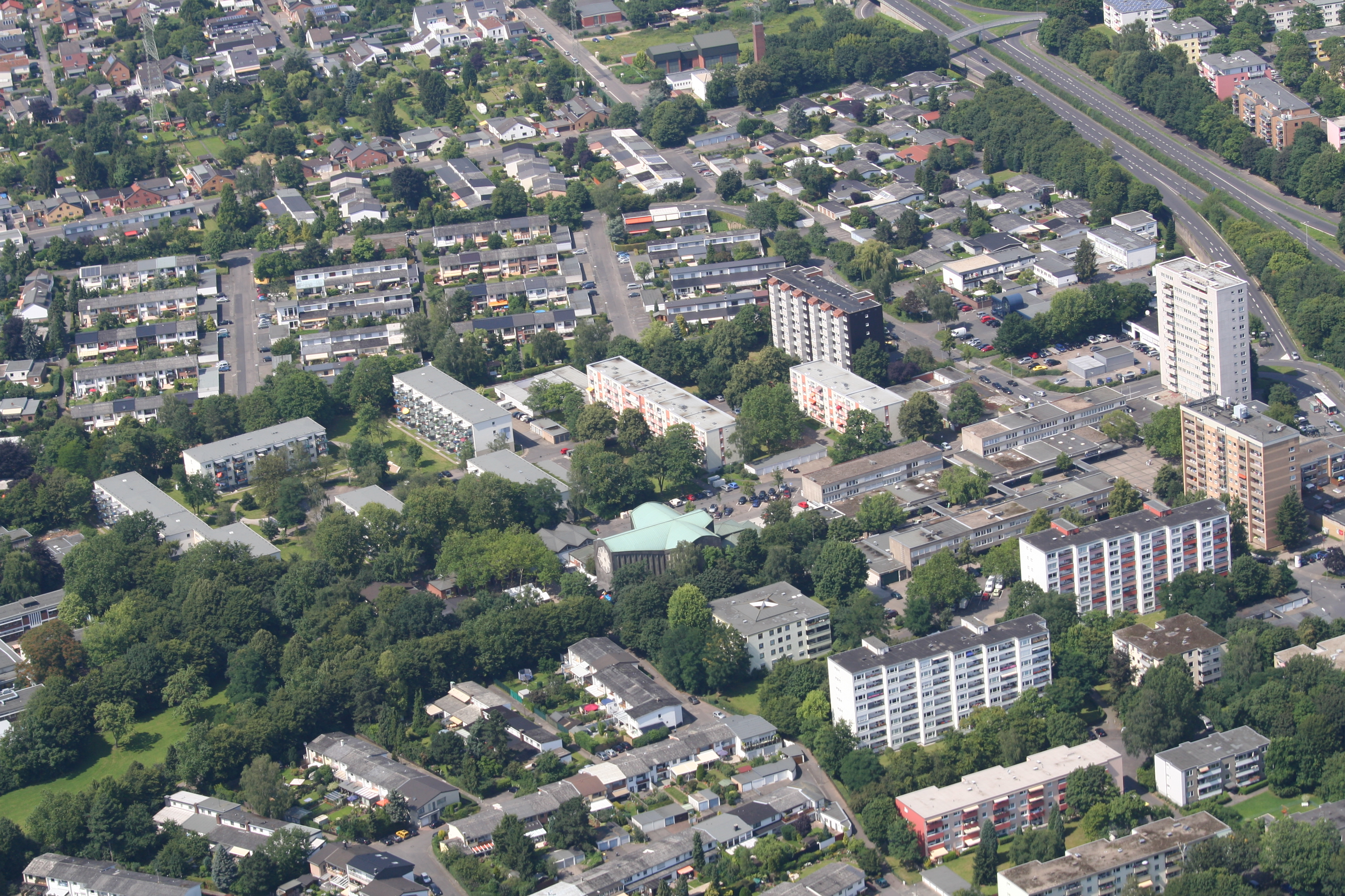 Cologne, suburb Heimersdorf. Aerial photography